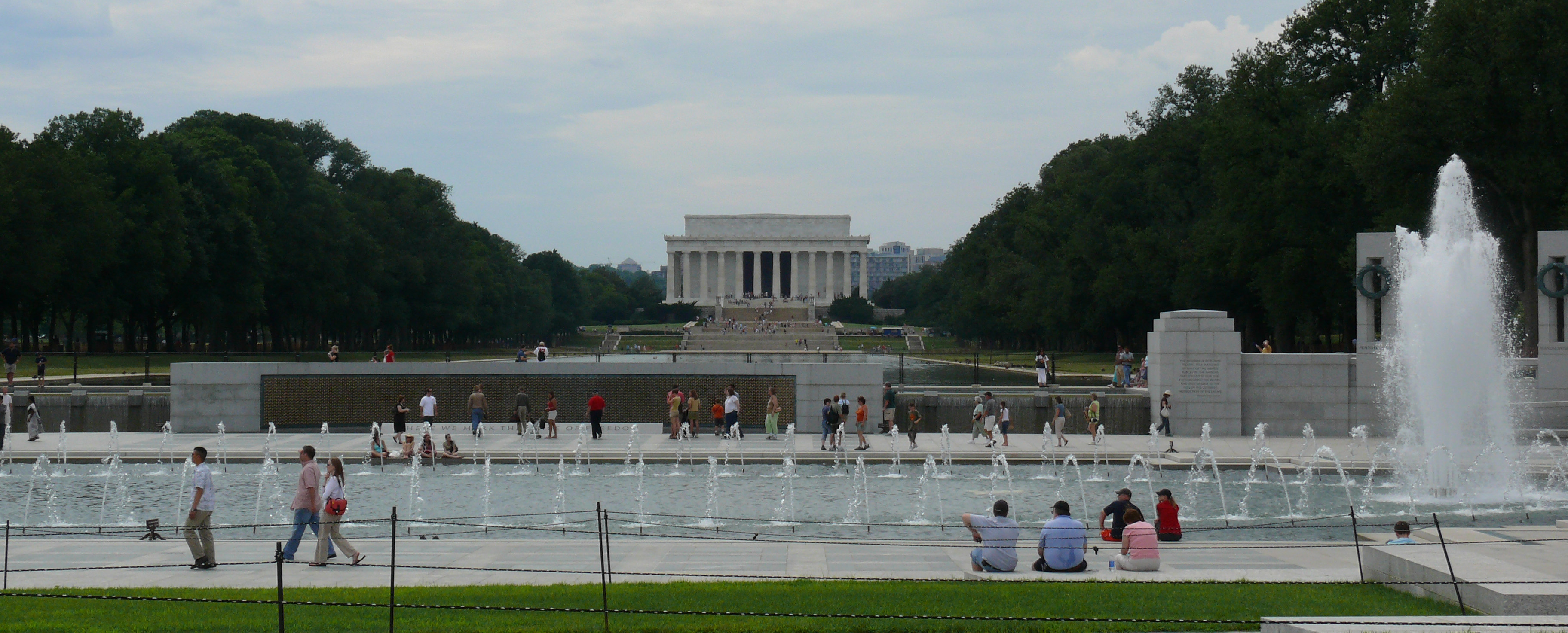 Part of the National Mall with World War II Memorial, reflectihg pool and Lincoln Memorial. The Lincoln Memorial is a United States Presidential memorial built to honor the 16th President of the United States, Abraham Lincoln. The Lincoln Memorial Reflecting Pool is the largest of Washington, D.C.'s reflecting pools. Located directly east of the Lincoln Memorial, it is a long, rectangular pool visible in many photographs of the Washington Monument. It is lined by walking paths and shade trees on both sides. It reflects both the Washington Monument and the Lincoln Memorial. The U.S. National World War II Memorial is a National Memorial dedicated to Americans who served in the armed forces and as civilians during World War II. The final design consists of 56 pillars, each 5 m tall, arranged in a semicircle around a plaza with two 13 m arches on opposite sides. Two-thirds of the 7.4-acre (30,000 m2) site is landscaping and water. Each pillar is inscribed with the name of one of the 48 U.S. states of 1945, as well as the District of Columbia, the Alaska Territory and Territory of Hawaii, the Commonwealth of the Philippines, Puerto Rico, Guam, American Samoa, and the U.S. Virgin Islands. The northern arch is inscribed with "Atlantic"; the southern one, "Pacific."